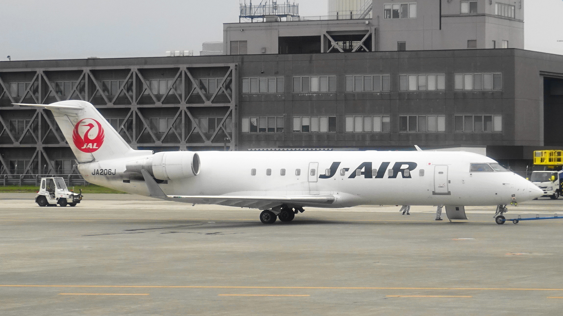 J-Air(Japan Airlines) Bombardier CRJ-200ER JA206J